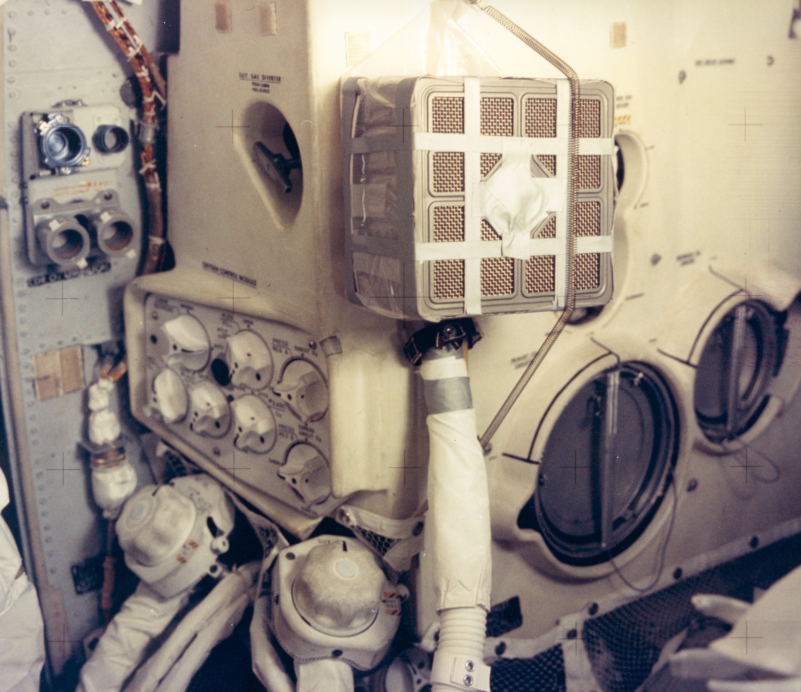 An interior view of the Apollo 13 Lunar Module and the "mailbox." The "mailbox" was a jury-rigged arrangement which the Apollo 13 astronauts built to use the Command Module lithium hydroxide canisters to purge carbon dioxide from the Lunar Module. Lithium hydroxide is used to scrub CO2 from the spacecraft atmosphere. Since there was a limited amount of lithium hydroxide in the Lunar Module, this arrangement was rigged up using the canisters from the Command Module. The "mailbox" was designed and tested on the ground at the Manned Spacecraft Center before it was suggested to the problem-plagued Apollo 13 crewmen. Because of the explosion of an oxygen tank in the Service Module, the three astronauts had to use the Lunar Module as a "lifeboat."